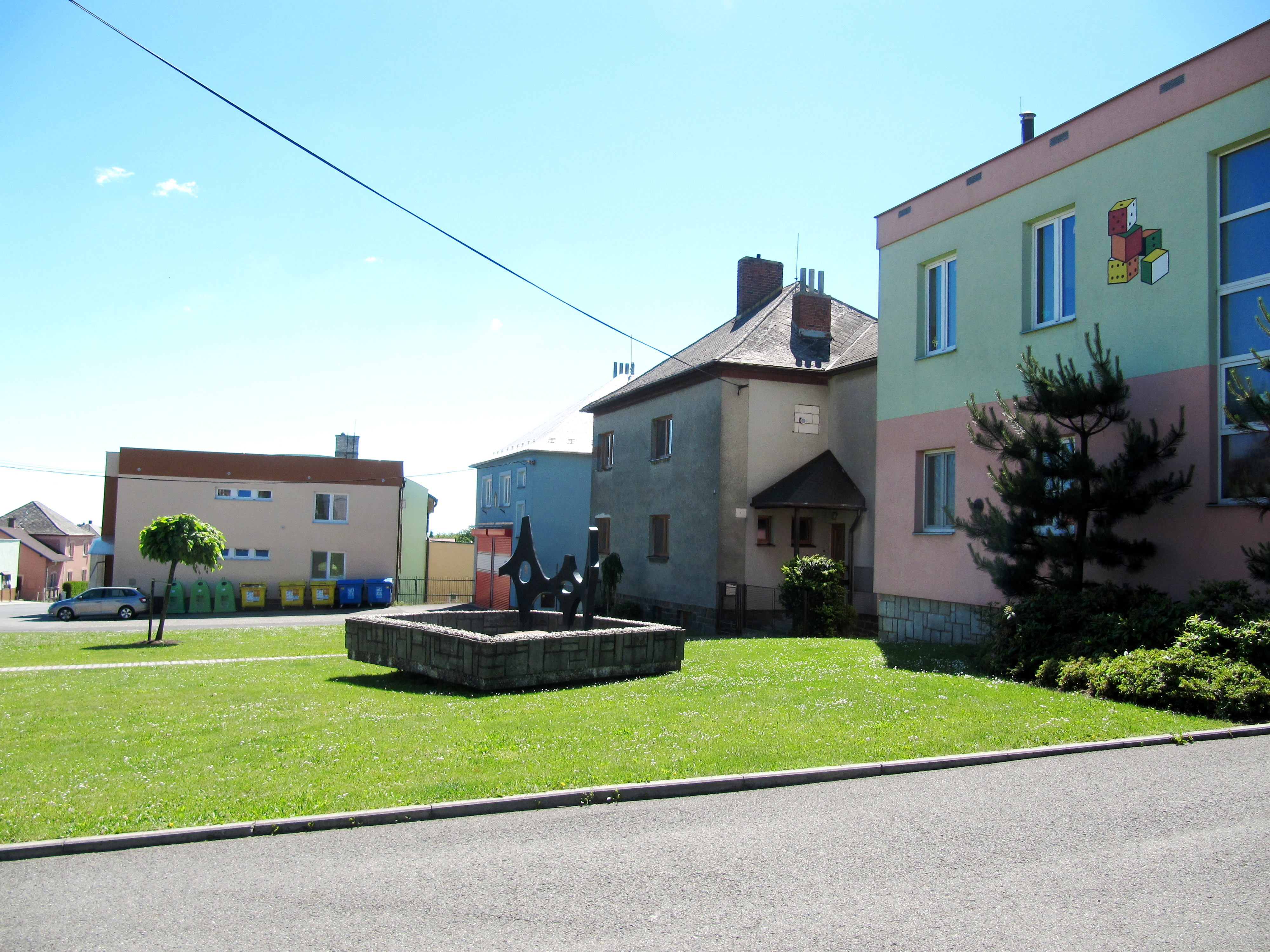 Tísek, Nový Jičín District, Czech Republic.